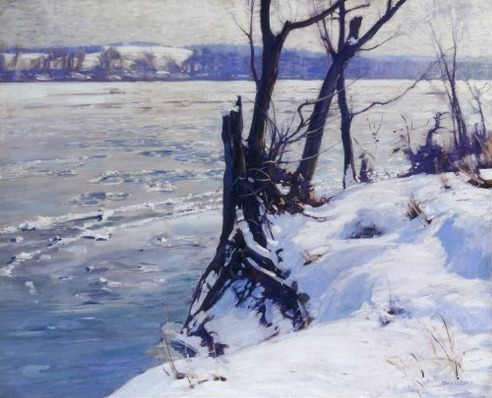 A Winter Morning - Bucks County. Painting. 42x52 in